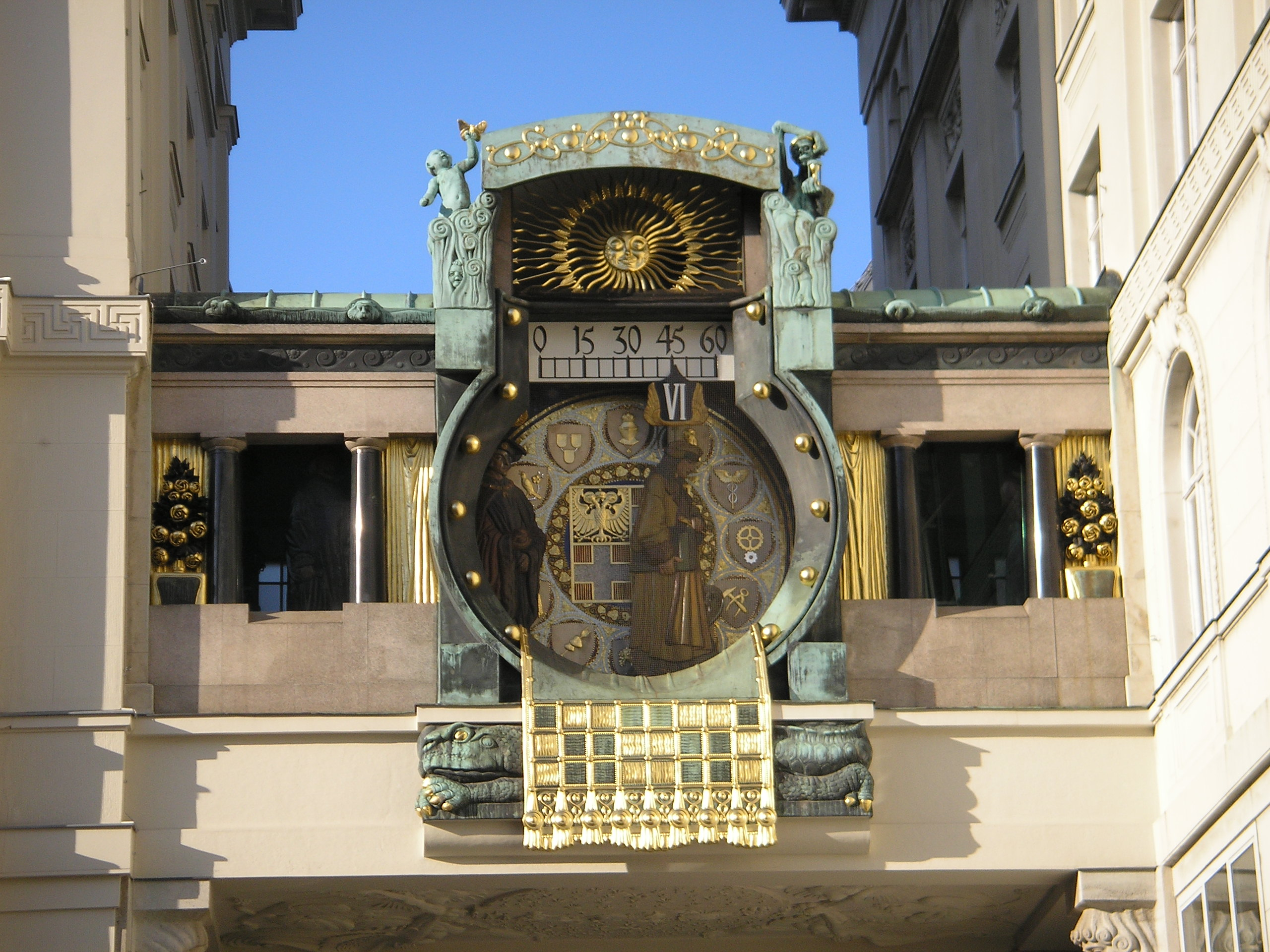 Ankeruhr in Vienna, one of the masterpieces of the Vienna Jugendstil. Located at Hoher Markt.